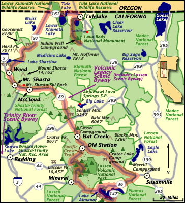 Map of the California section of the Volcanic Legacy Scenic Byway — a National Scenic Byway in northern California and southern Oregon. Includes portions of California State Routes 36, 89, and 161; and of U.S. Route 97. Within portions of Klamath, Lassen, and Plumas National Forests; Lassen Volcanic National Park; and Lava Beds National Monument.